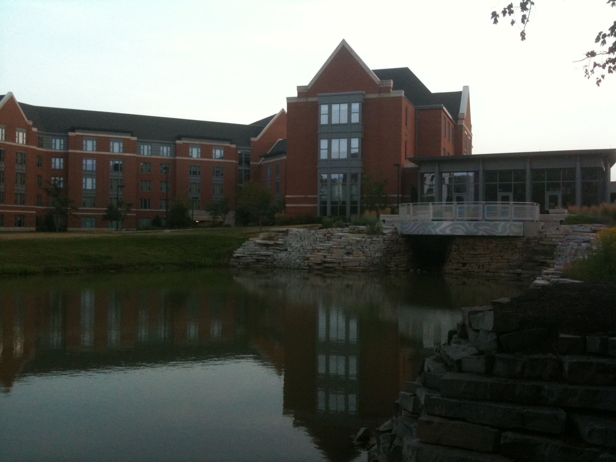 Park Hall